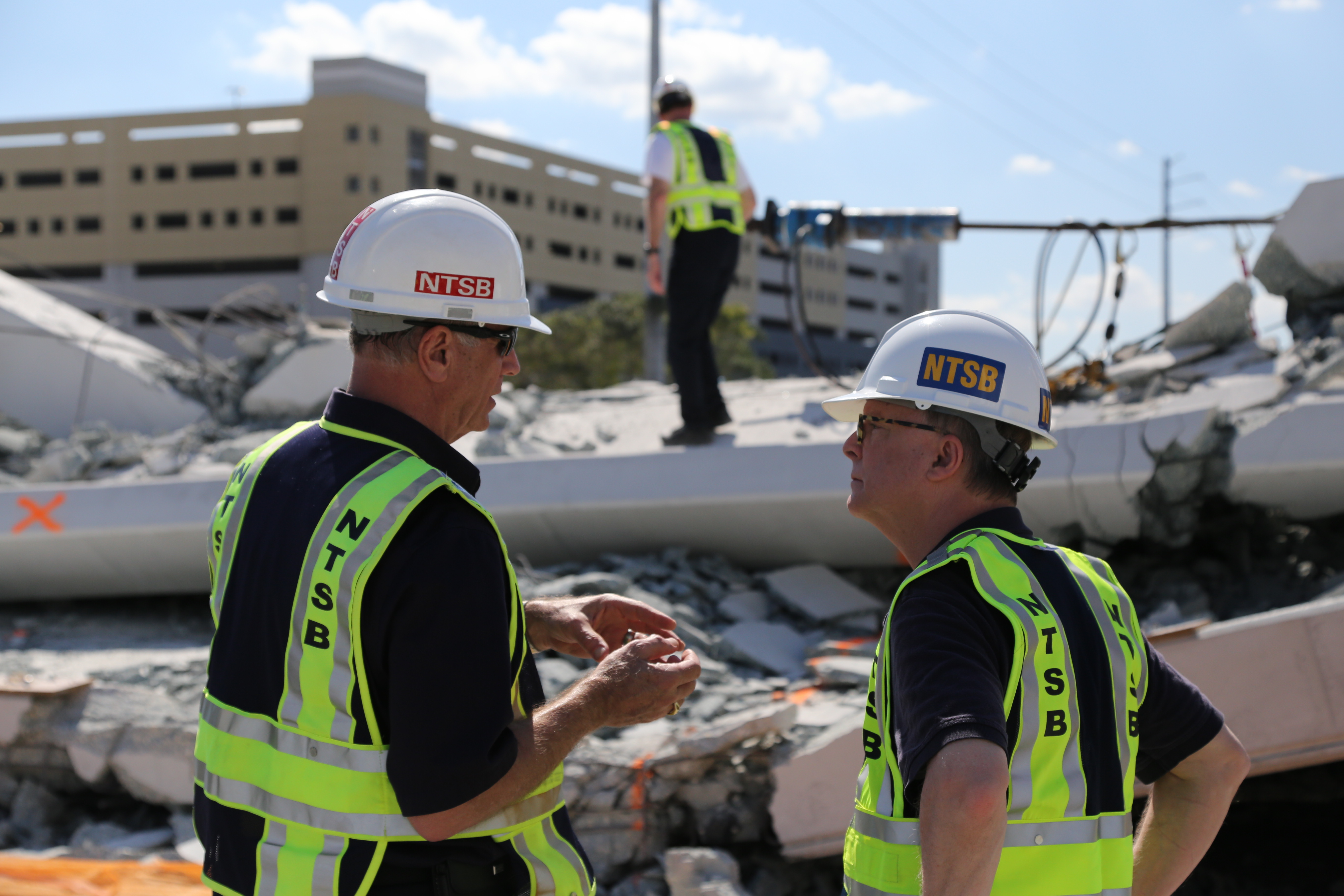 A member of the NTSB’s Go Team that is investigating Thursday’s collapse of a bridge on the FIU campus, examines debris while Investigator in Charge Robert Accetta briefs NTSB Chairman Robert Sumwalt on the status of the investigation. (NTSB Photo by Chris O’Neil)